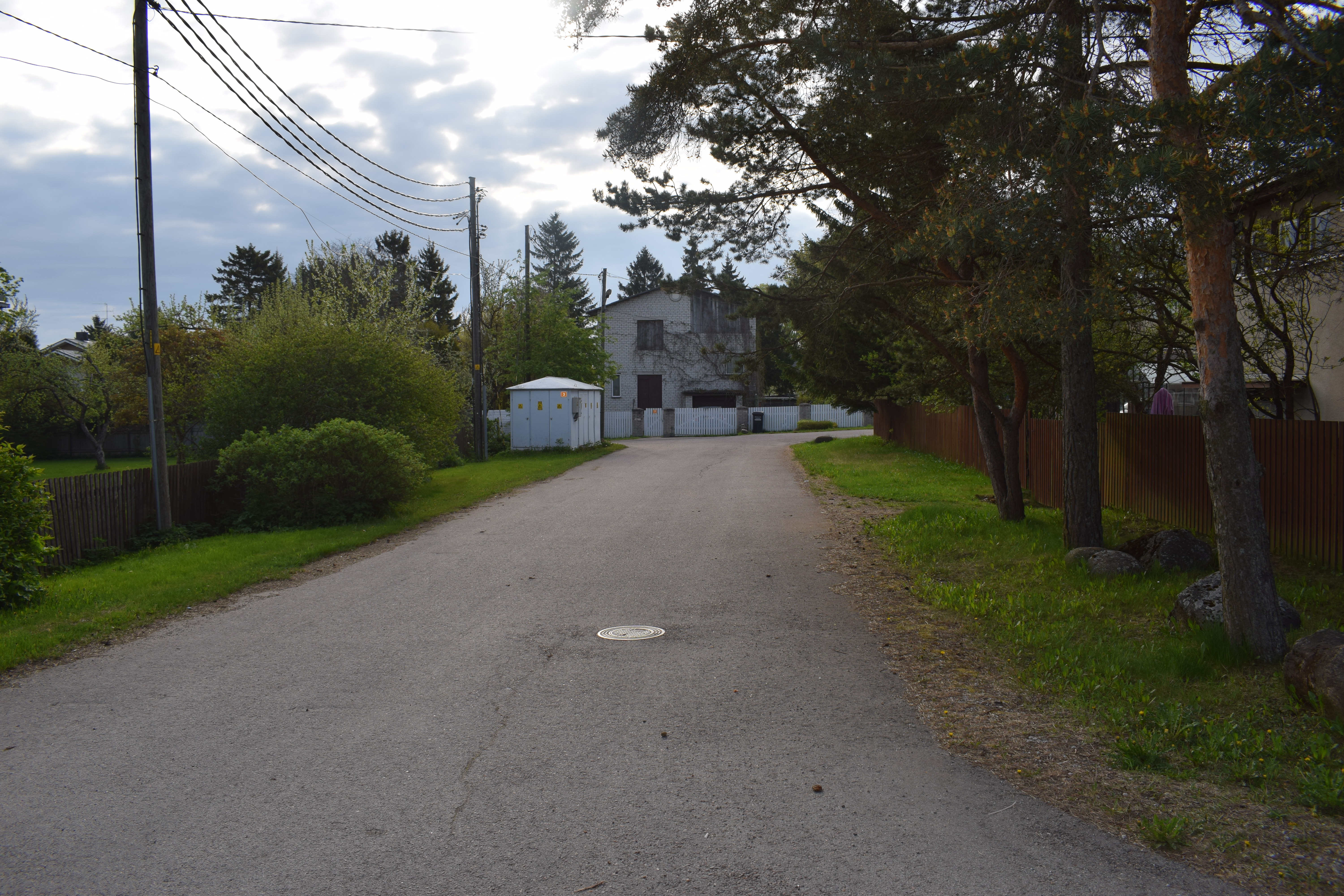 Kurekatla road